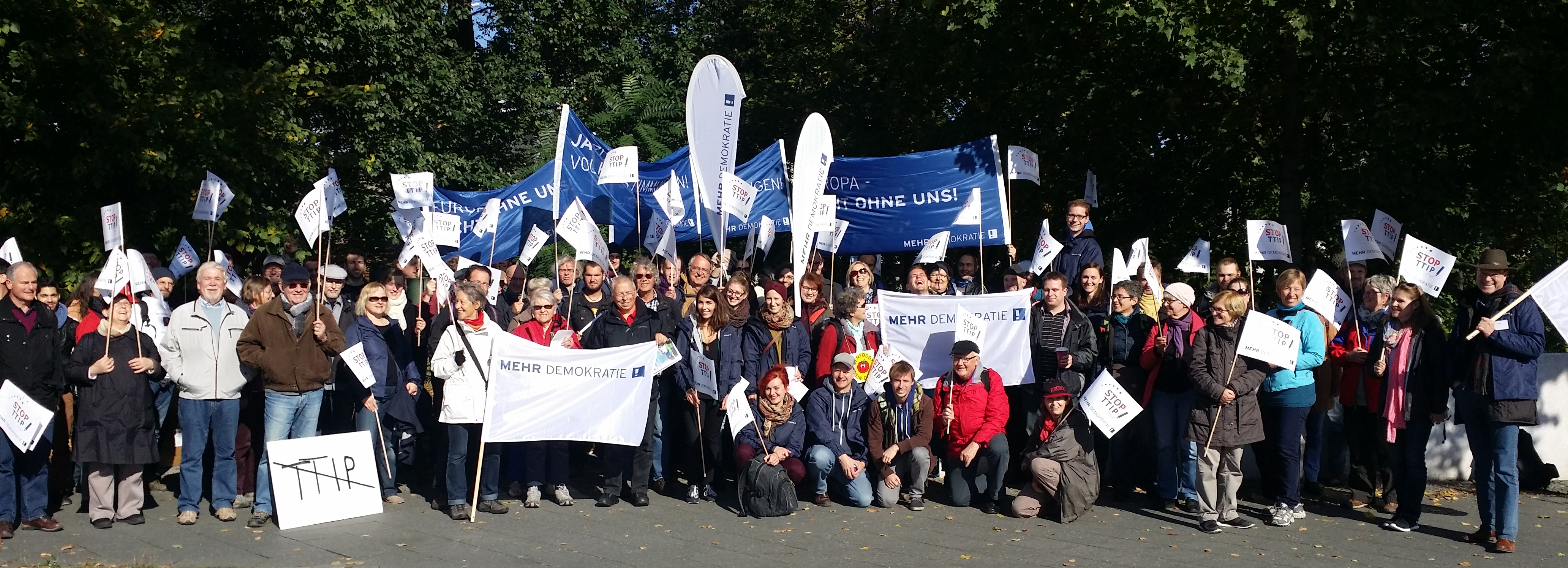 Activists of the organization "Mehr Demokratie" in a mass demonstration of 250,000 people against TTIP and CETA in Berlin (date: October 10, 2015).